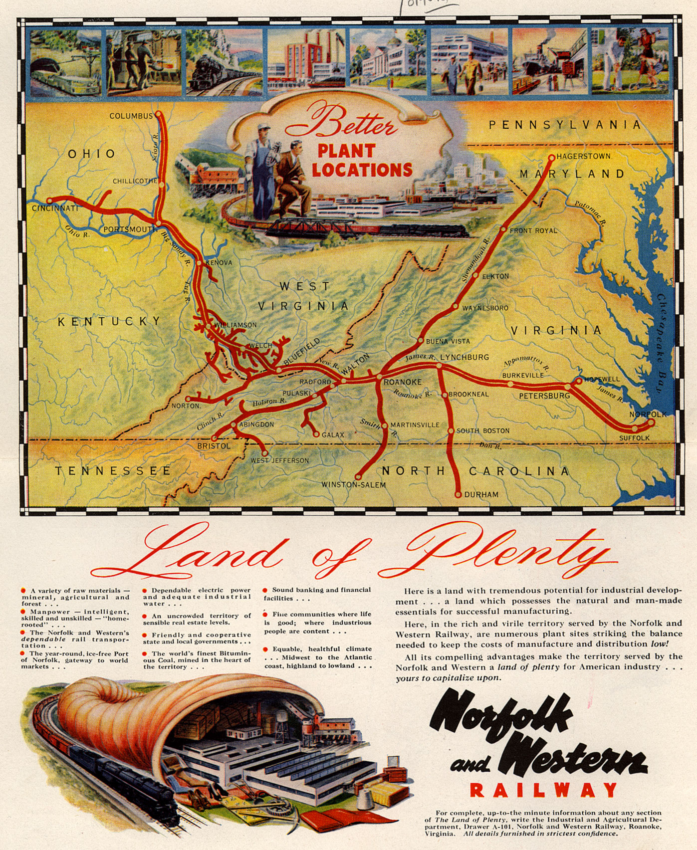 Source: Duke University Libraries Published at